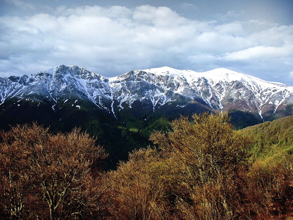 One of the highest and most majestic parts of Stara Planina.